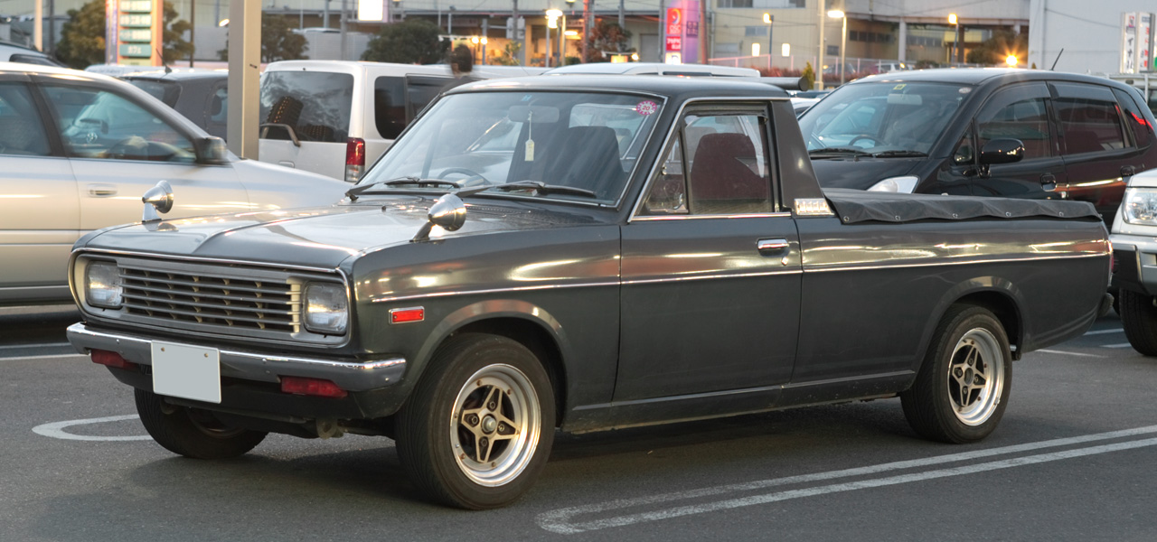 Image:Nissan Sunny truck long ( GB122 ), Japan spec.